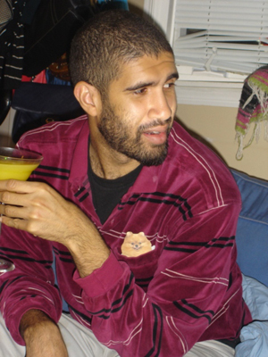 Jayson Scott Musson on October 29, 2007